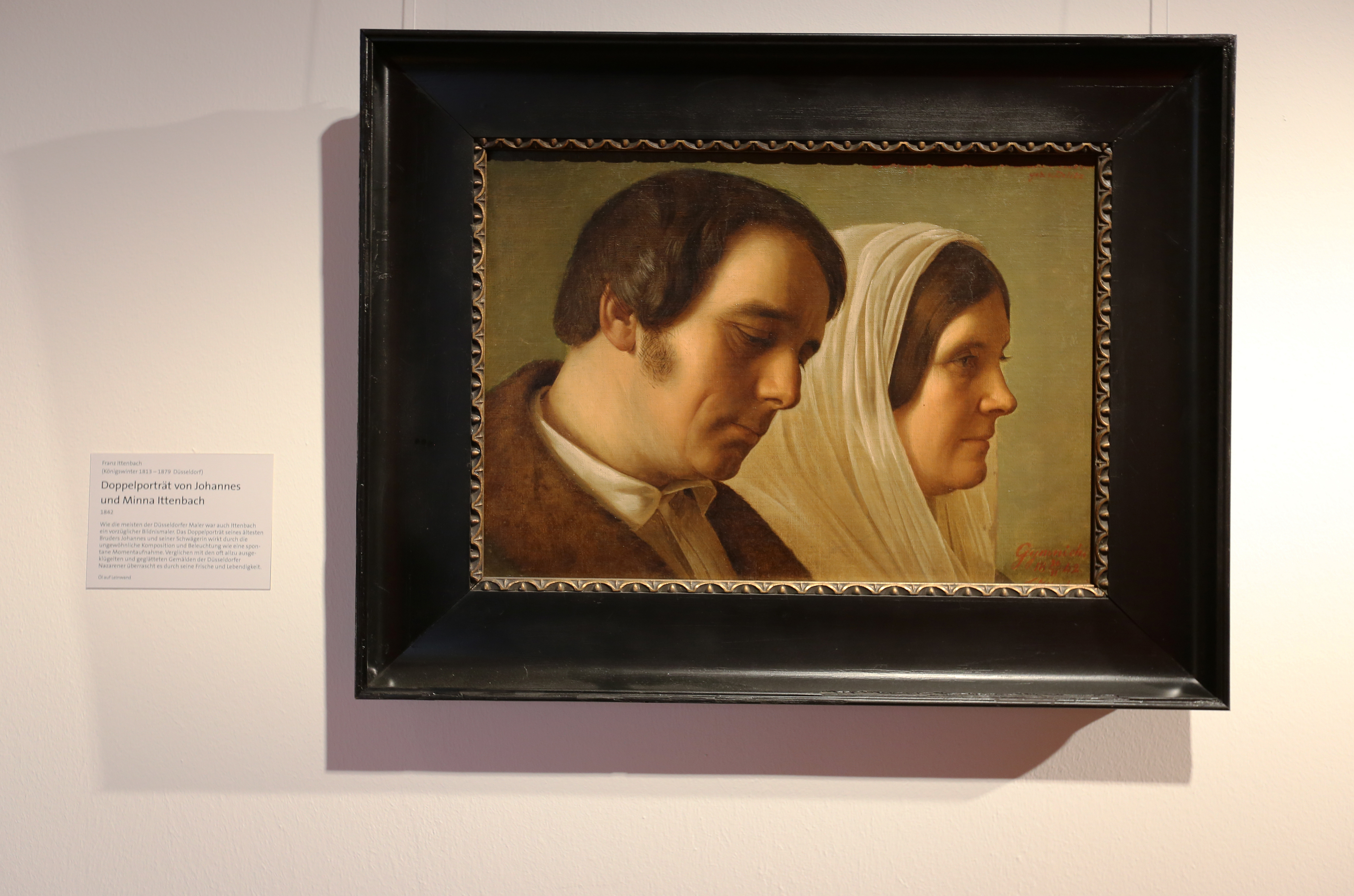 Portrait of Johannes und Minna Ittenbach. Oil on canvas , 1842